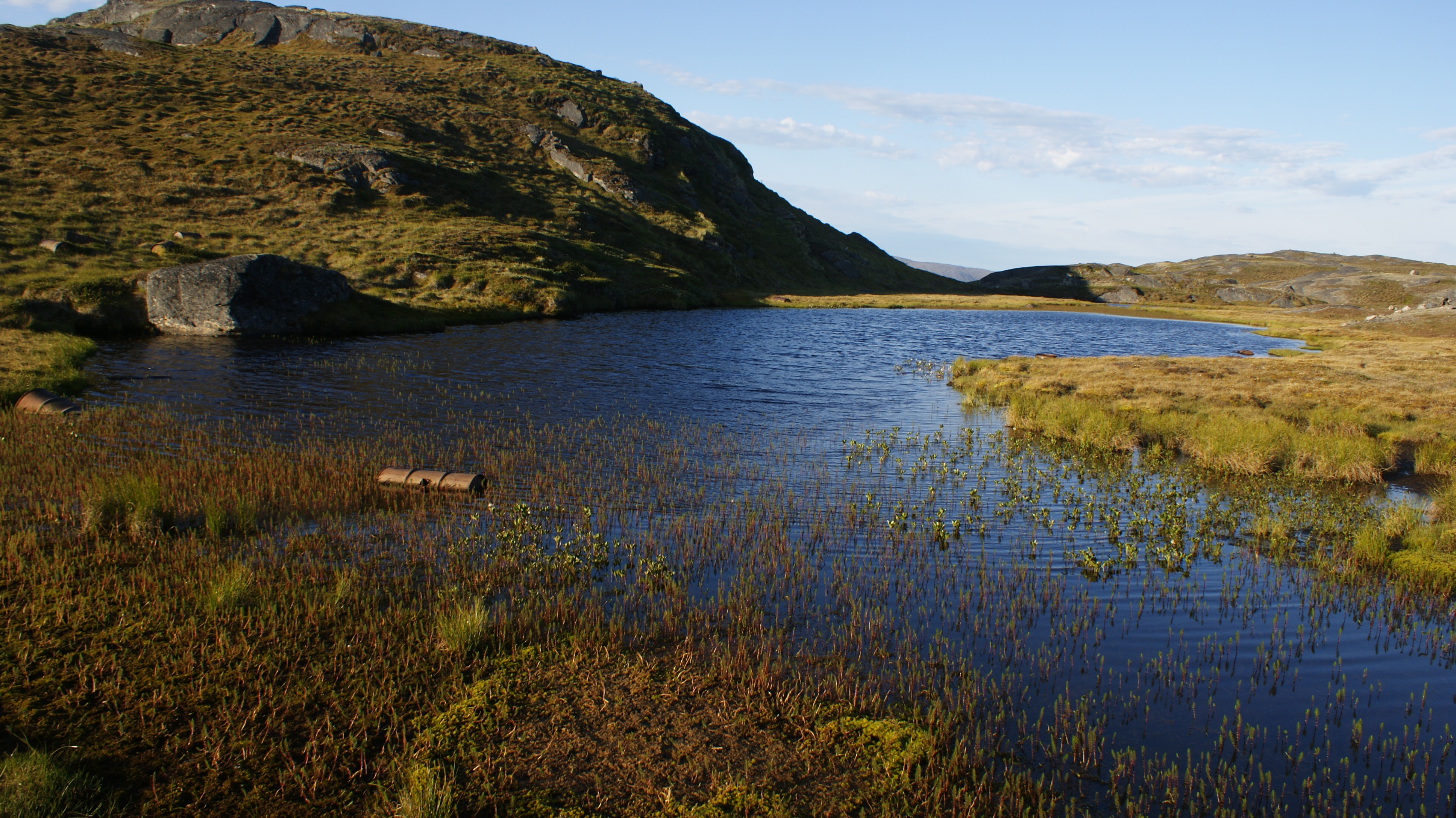 Wetland lake under the highest point in the Tarajornitsut highland, 506m, in the inland part of central-western Greenland.